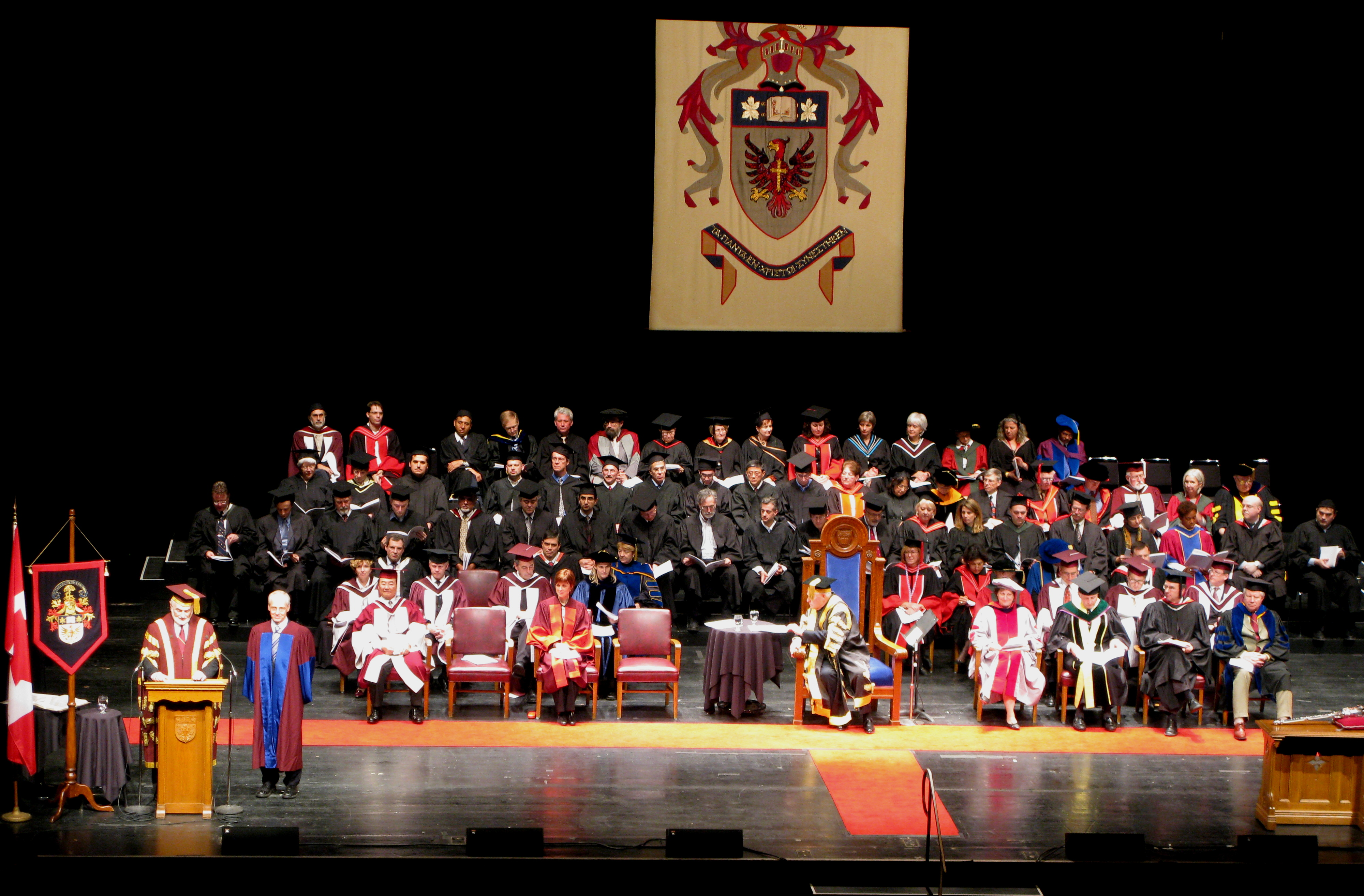 Afternoon session, Fall 2007 Convocation of McMaster University (formally, the 448th Convocation for the Conferring of Degrees), held at Hamilton Place, Hamilton, Ontario, Canada. Honorary degree recipients are Leonard Blum and Heather Munroe-Blum.